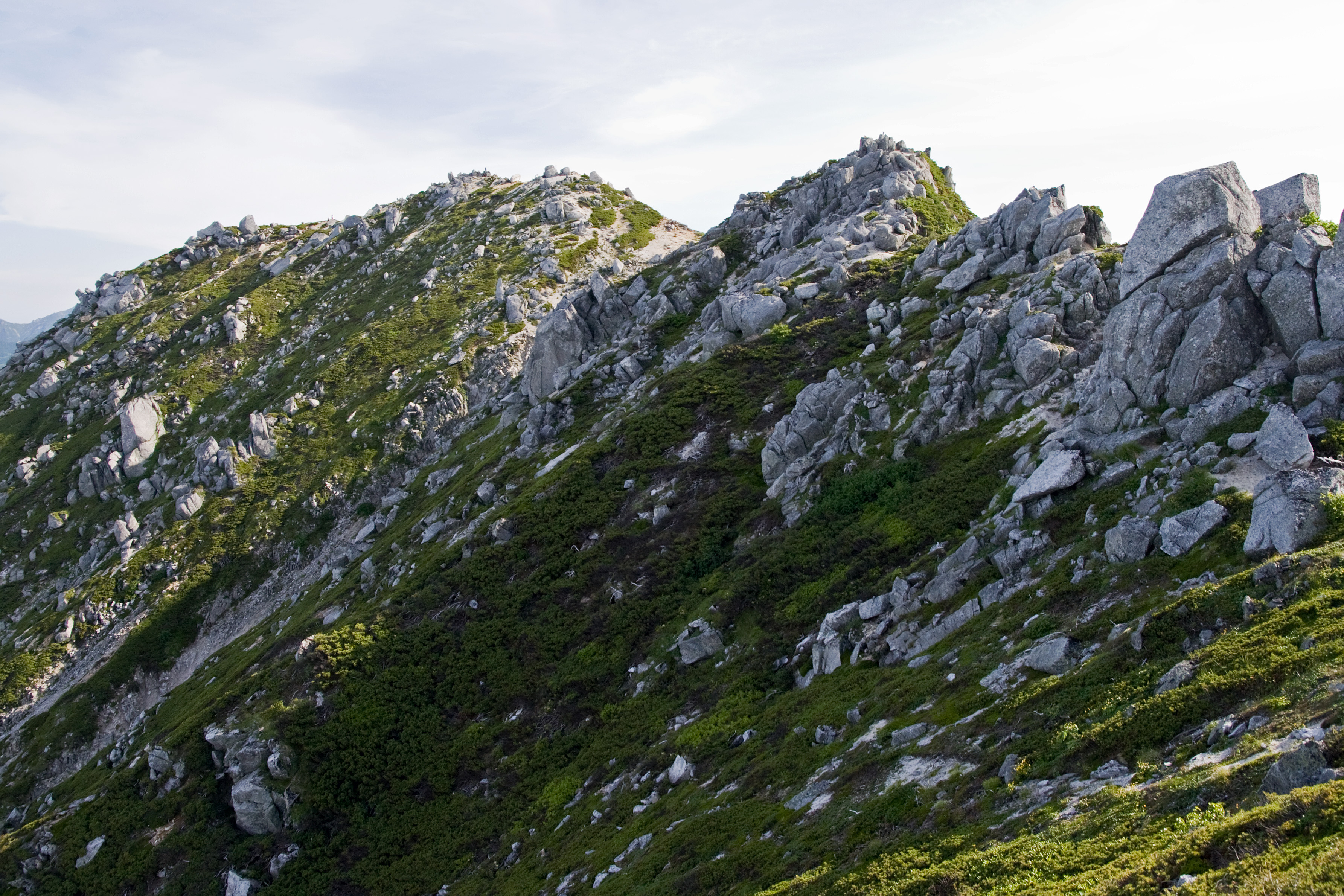 Mt.Utsugidake at Mts.Kiso, Nagano, Japan.